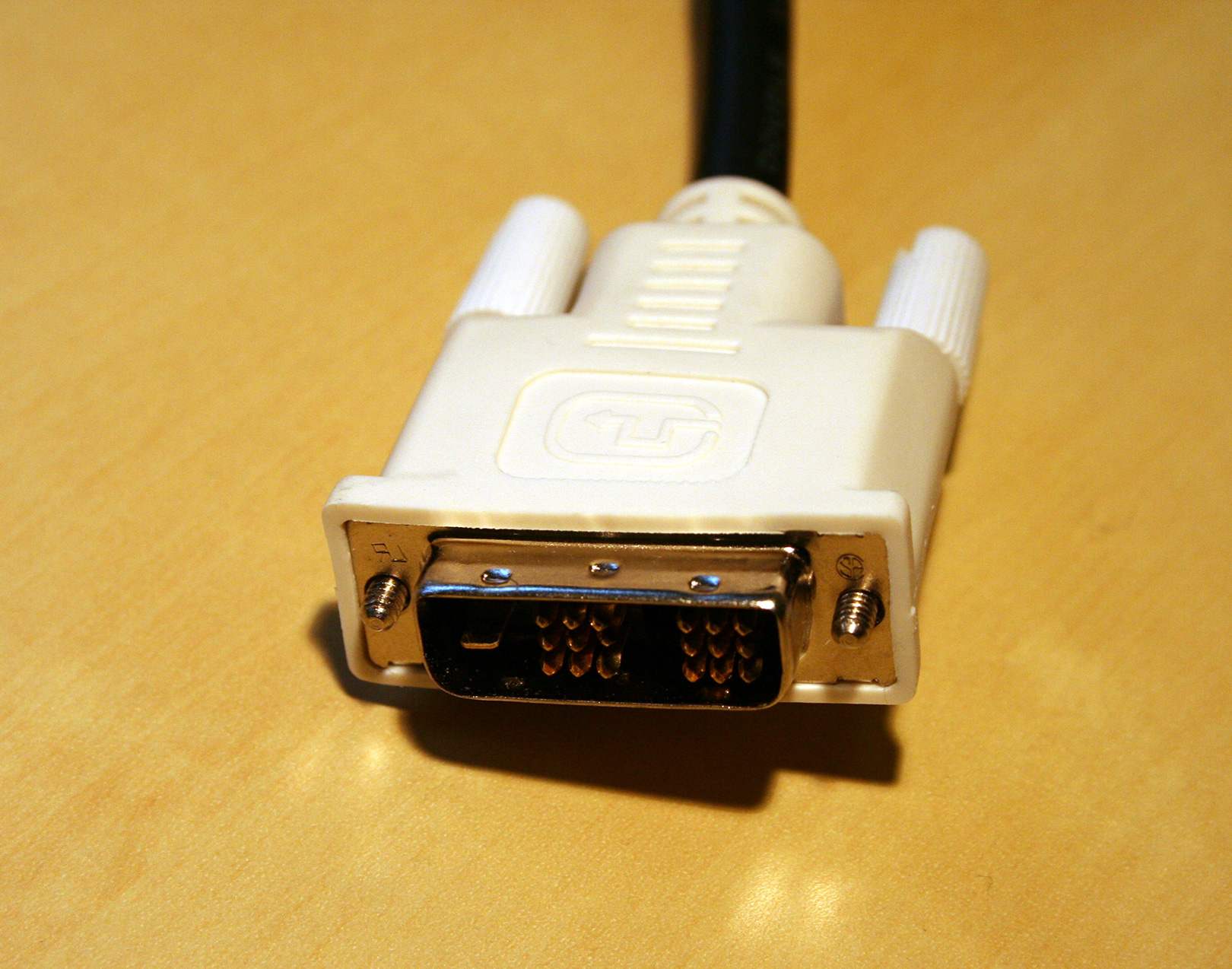 Photograph of a DVI-D monitor connector. One end of a standard white DVI cable. Previous version of image had a purple casing, which is uncommon on DVI connectors, so I took this to replace it.